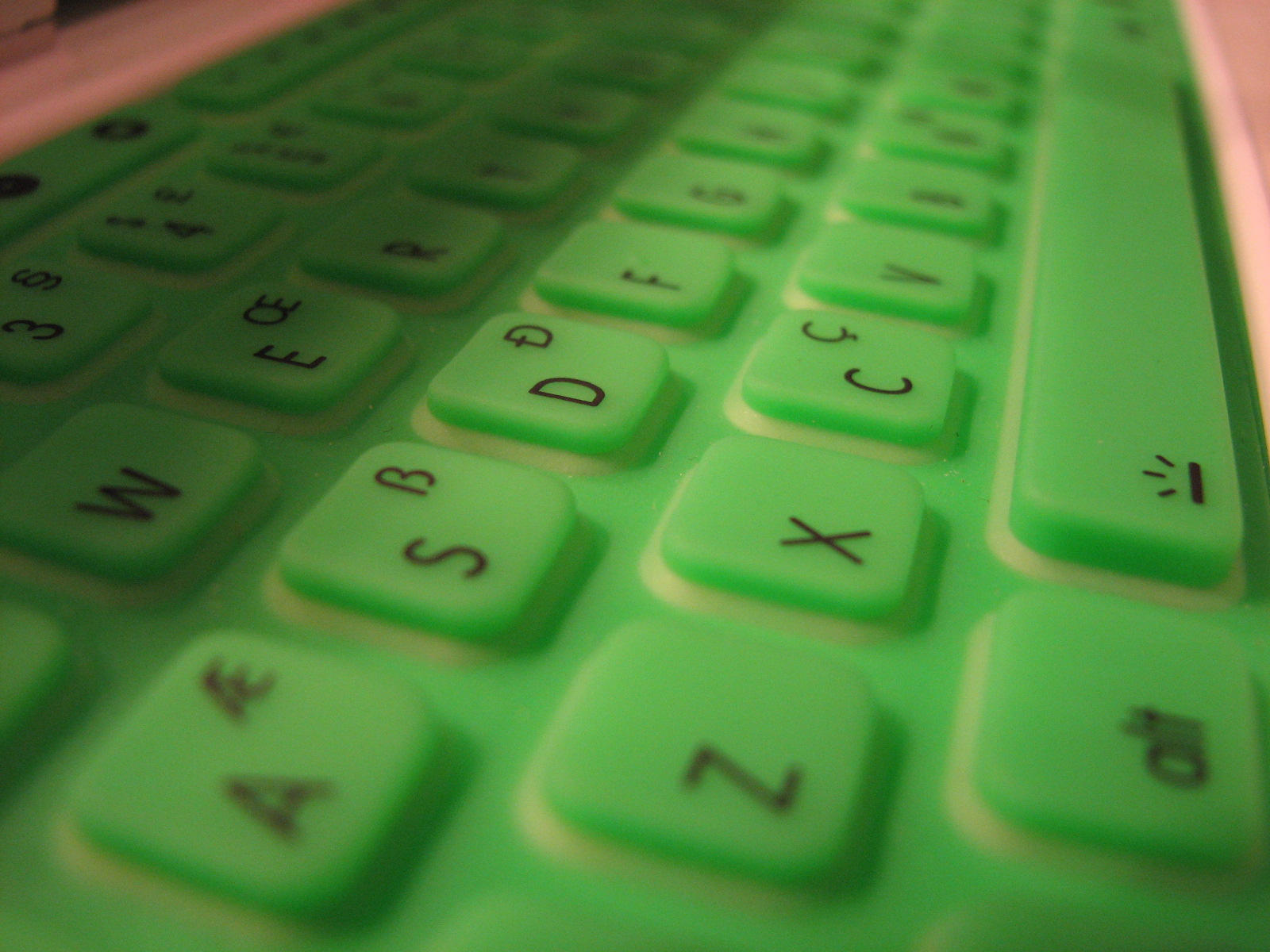 One Laptop per Child: keyboard